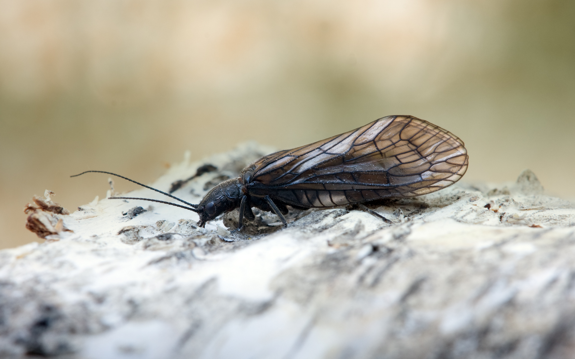 Alderfly (Sialis lutaria).